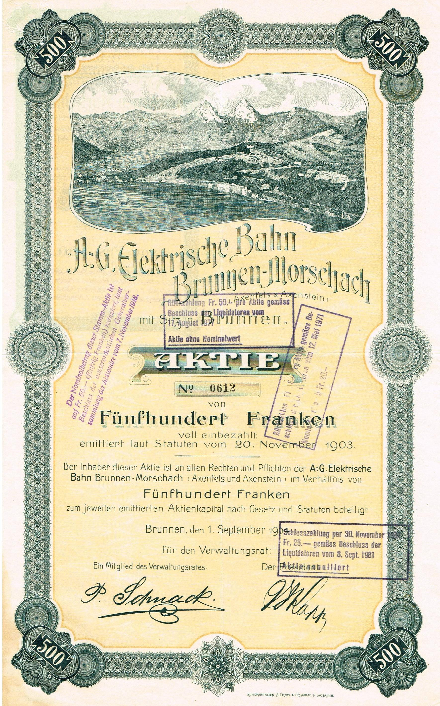 Share of the AG Elektrische Bahn Brunnen-Morschach, issued 1. September 1904